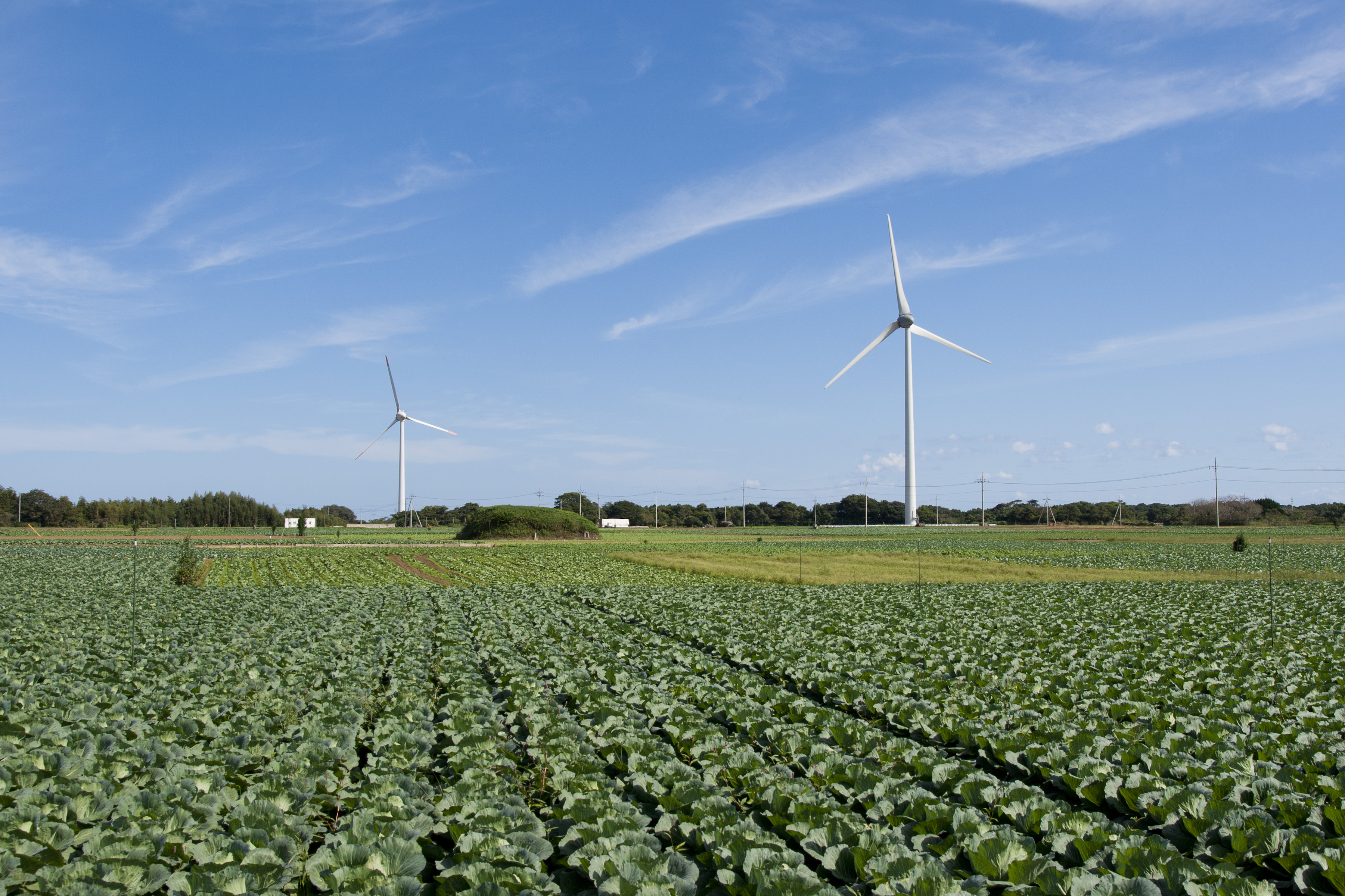 Wind farm in Choshi City, Chiba Prefecture, Japan.